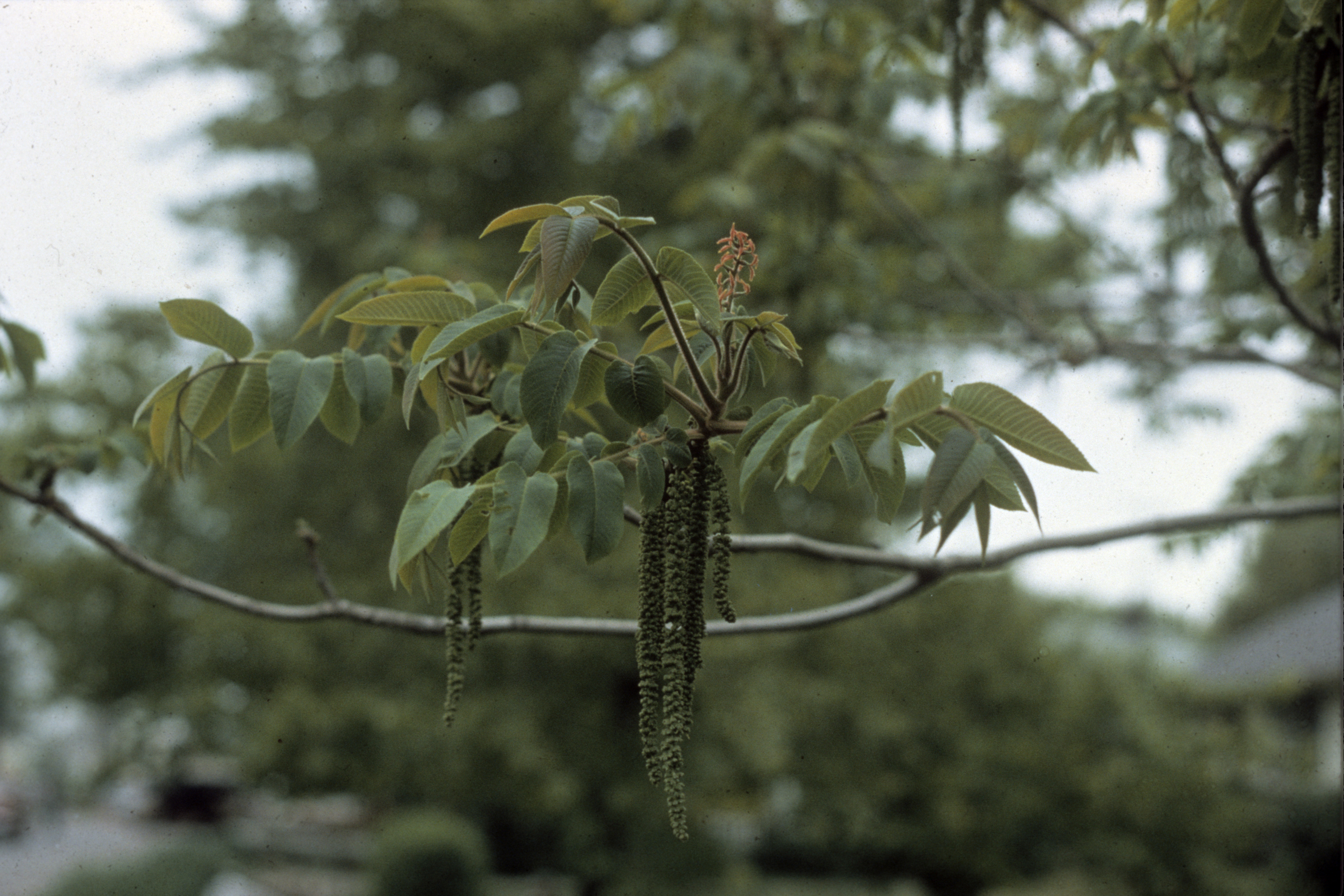 Juglans cinerea